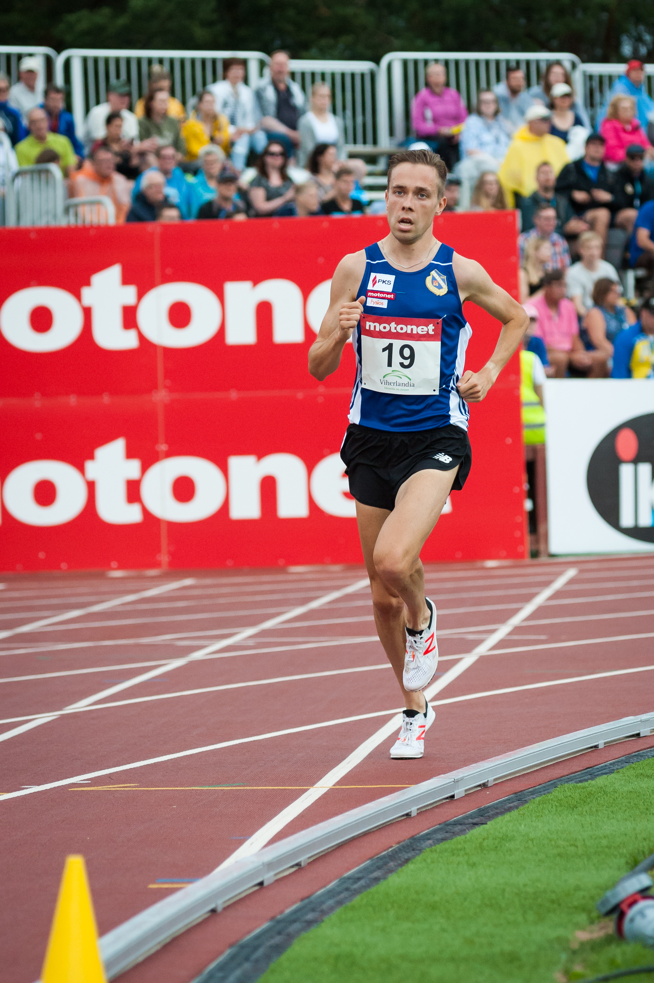 Men's 5000 m competition at the 2018 Kalevan Kisat, the Finnish championships in athletics, in Jyväskylä, Finland.